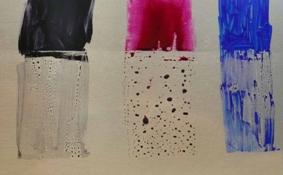 easy to clean effect on coated substrates